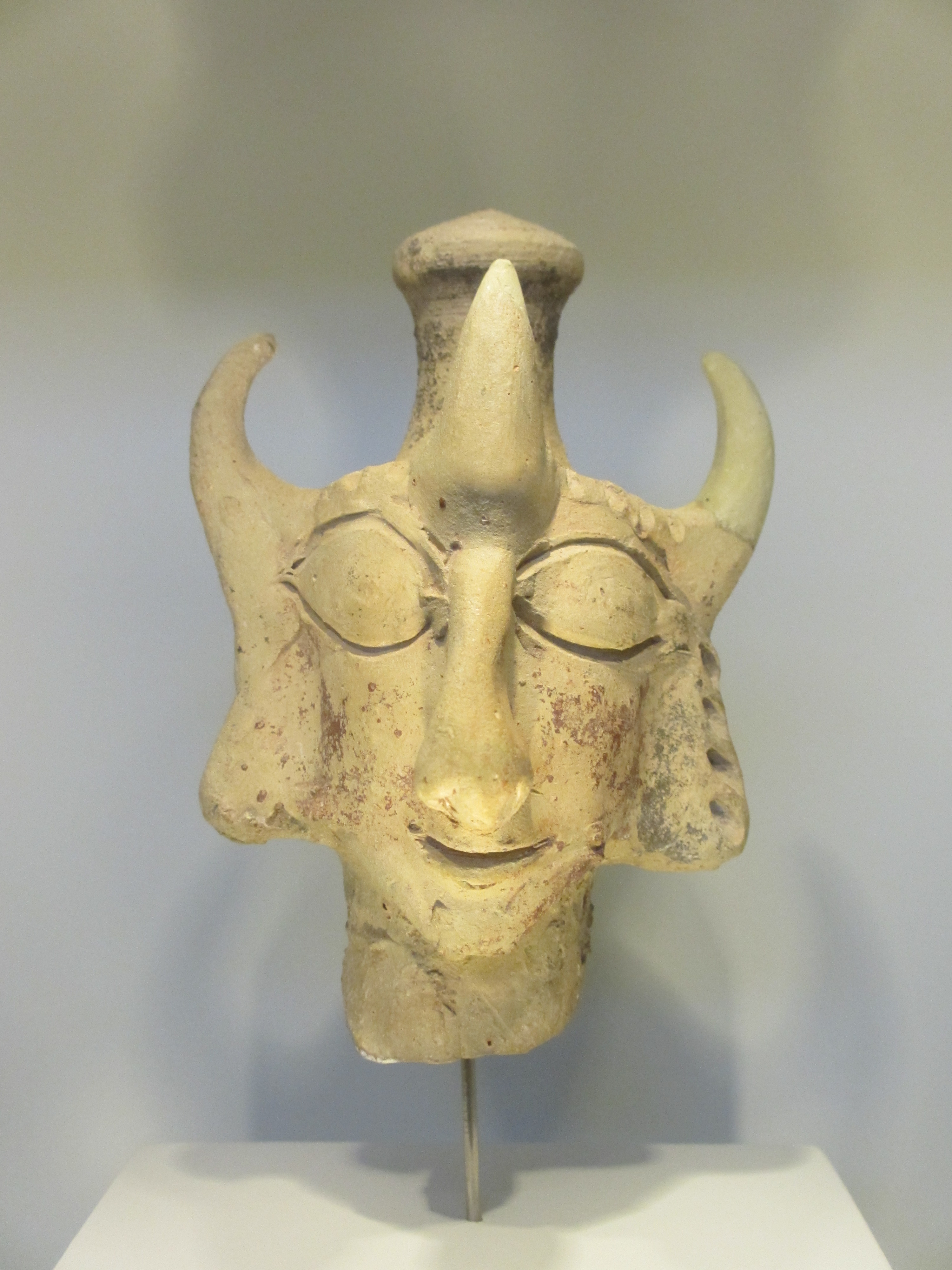 Edomite clay goddess crowned with three horns. Horvat Qitmit (7th-6th BCE). Israel Museum, Jerusalem